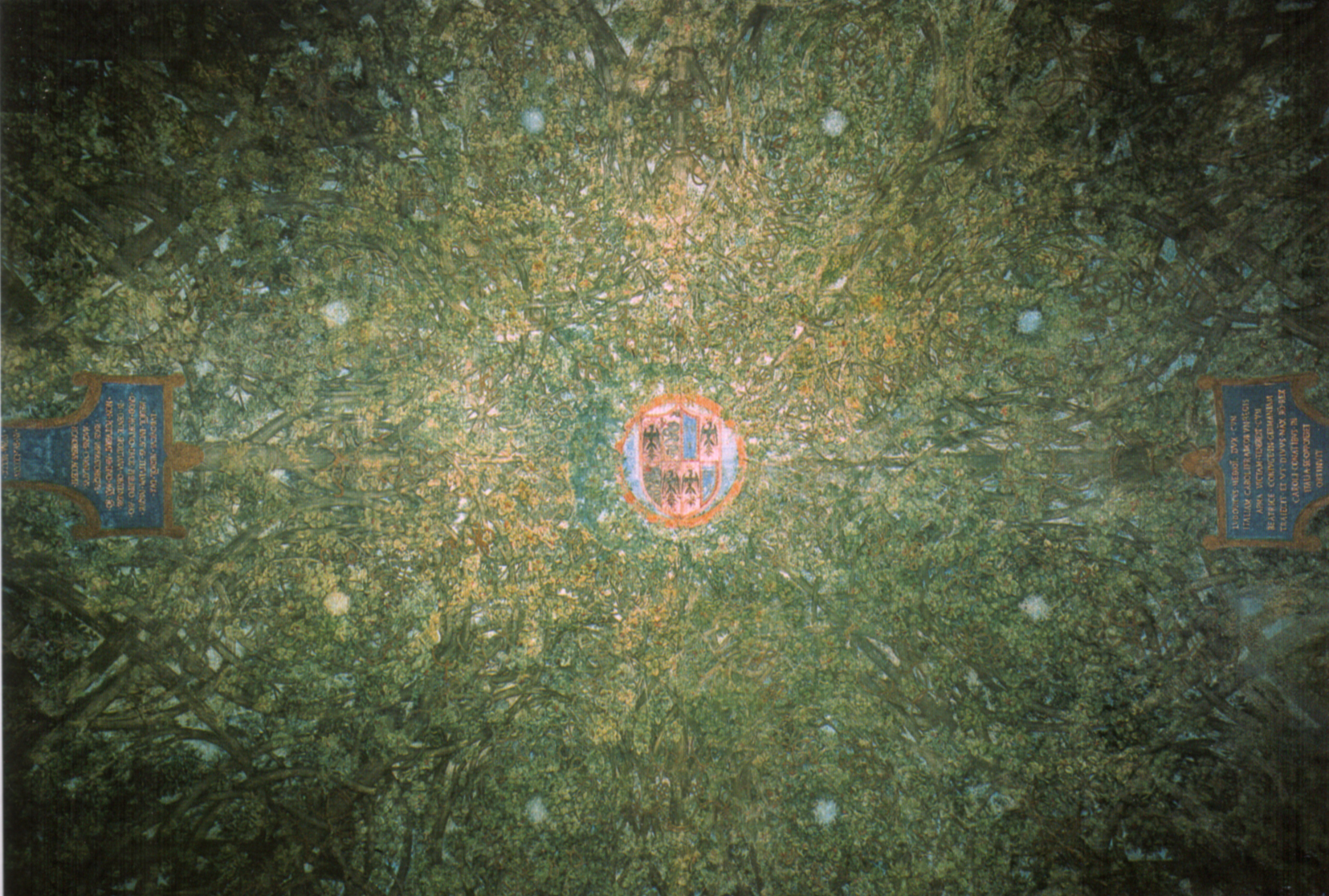 LEONARDO da Vinci Portrait of the Dukes of Milan with their sons Mixed technique, 90 cm (base) each Convent of Santa Maria delle Grazie, Milan